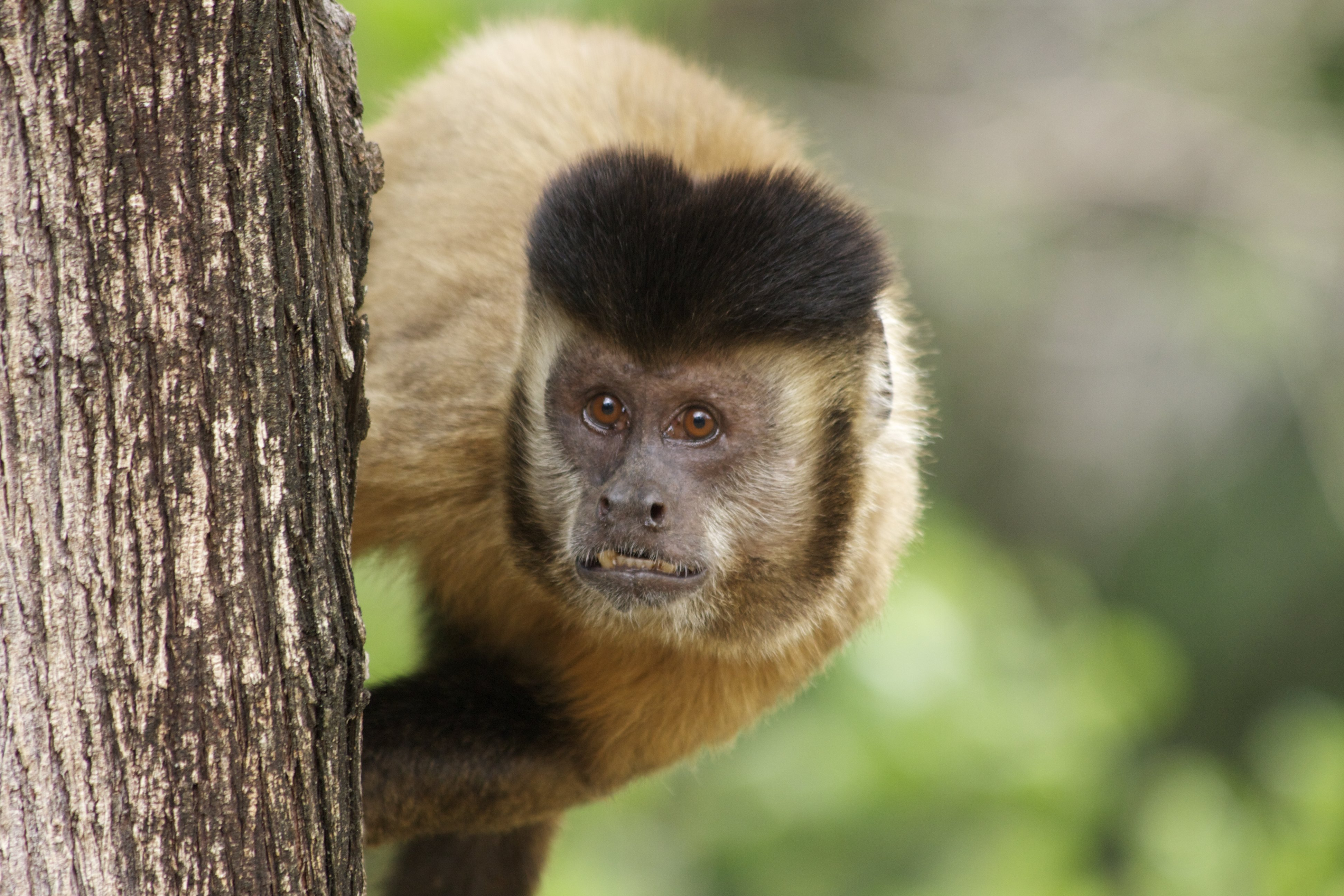 Capuchin monkey (Sapajus libidinosus). Adult male. Taken at Parque Nacional Serra da Capivara, PI, Brazil.